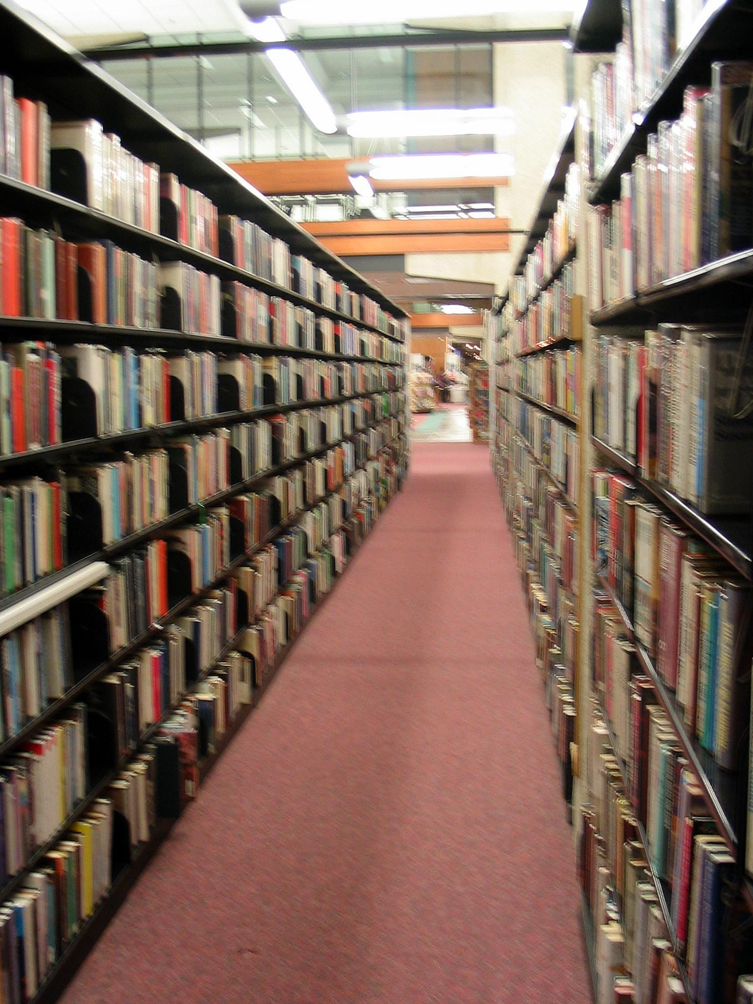 Library book shelves